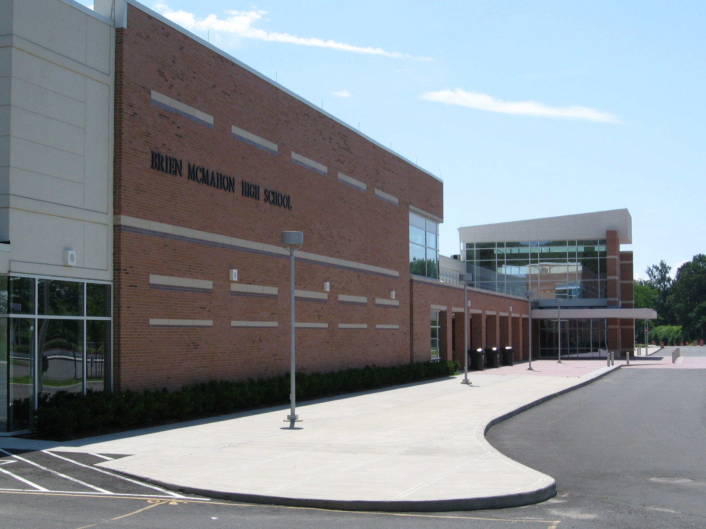 Entrance to Brien McMahon High School in Norwalk, Connecticut